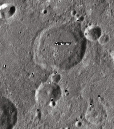 Almanon lunar crater as seen from Earth with satellite craters labeled